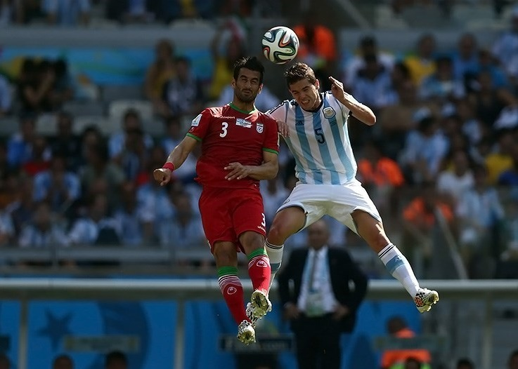 Iran and Argentina national football teams match, 2014 FIFA World Cup Group F